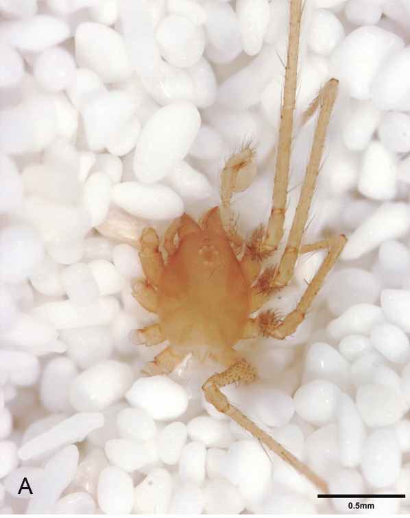 Tayshaneta myopica